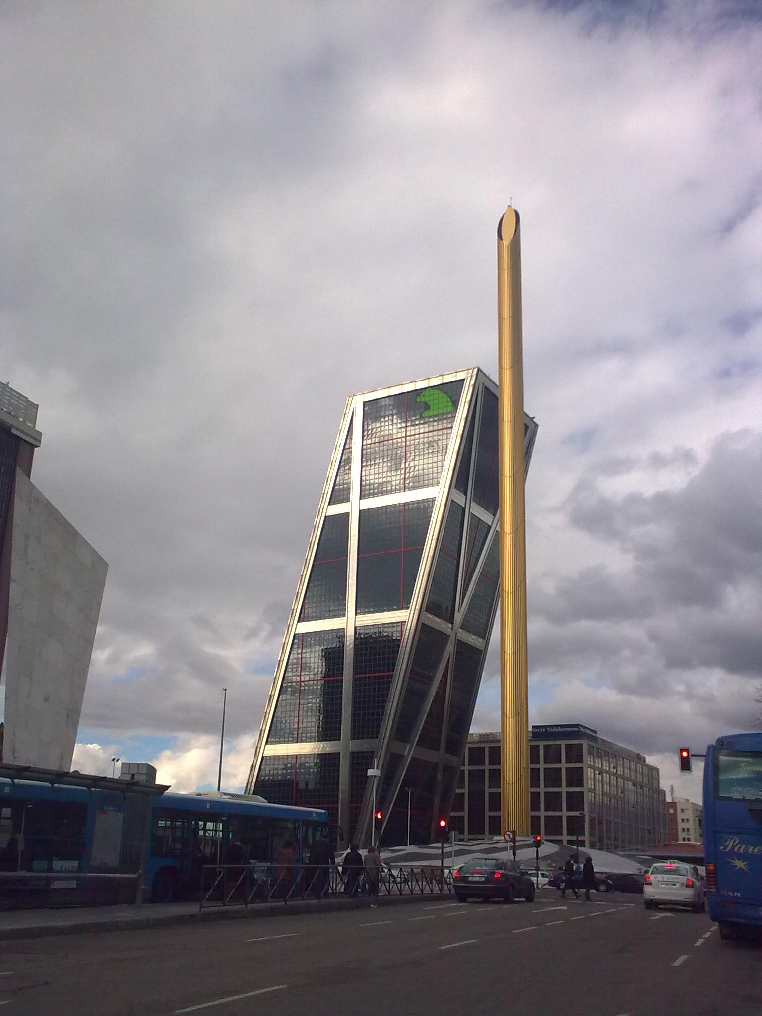 Obelisco de la Caja and one of the "Puerta de Europa" skyscrapers in Plaza de Castilla, Madrid, Spain.